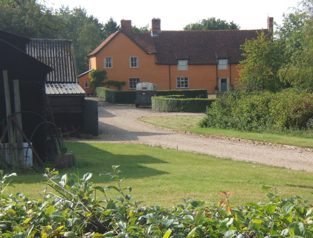 Alpheton Hall The hall is situated immediately to the north of the churchyard.